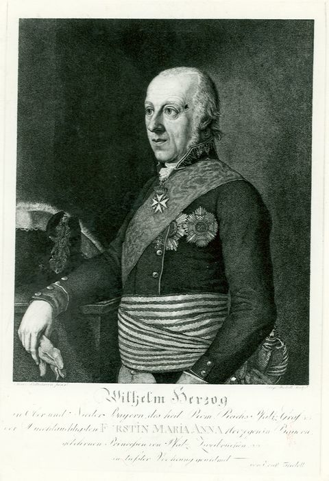 Wilhelm in Bayern (1752-1837), Duke in Bavaria